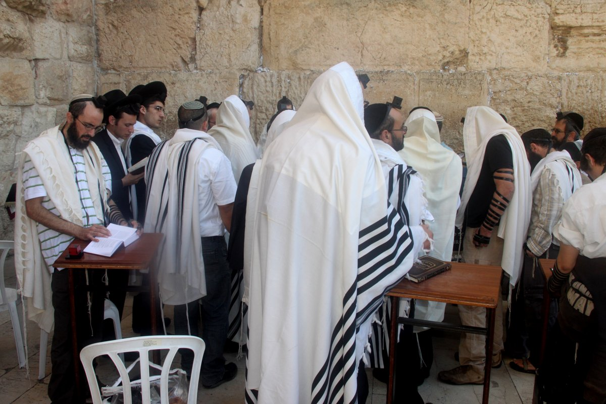 Praying jewish man on the western wall in Jerusalem